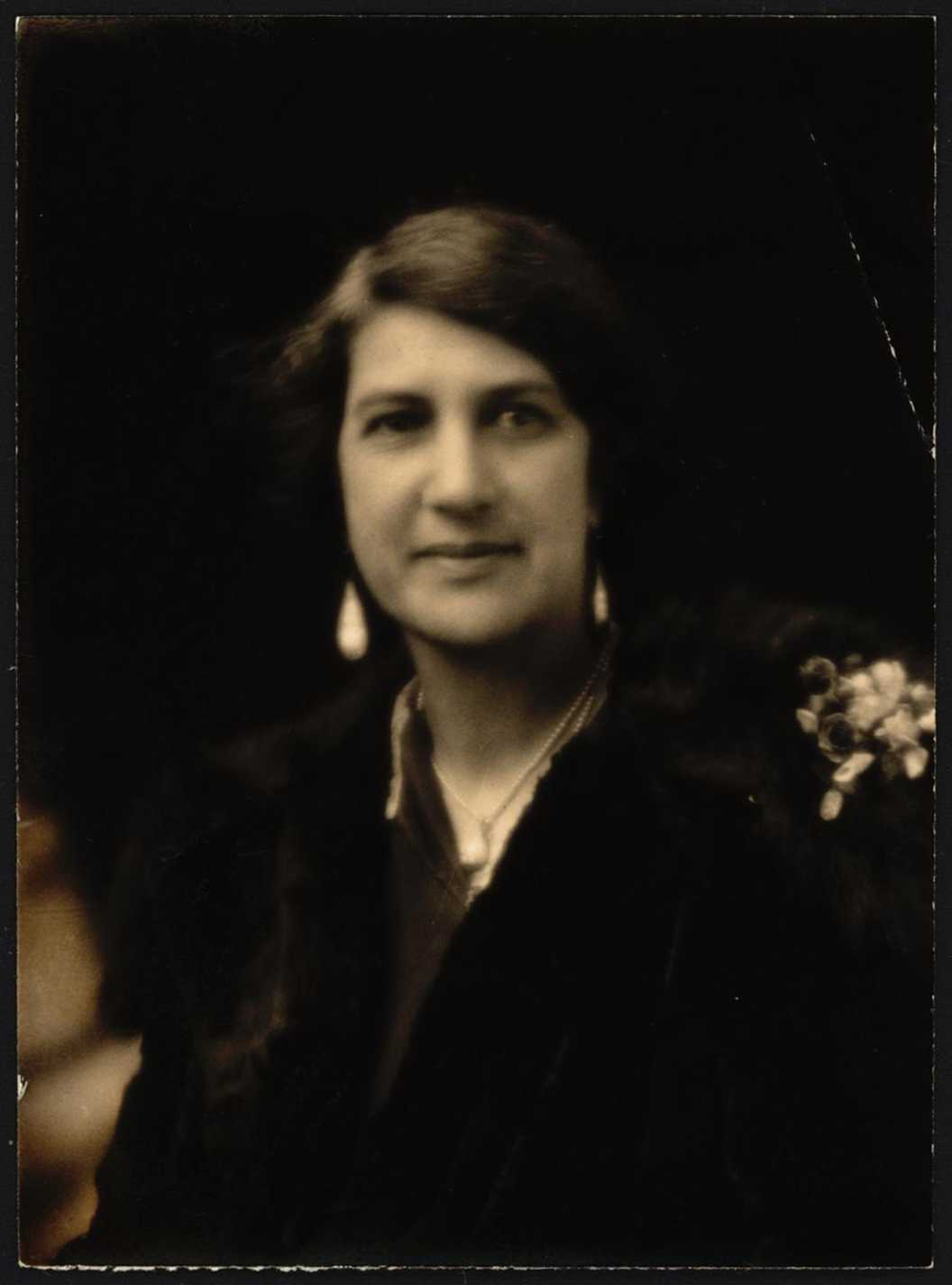 Archives New Zealand Reference: ACGO 8333 IA1 1350 / 15/11/32815